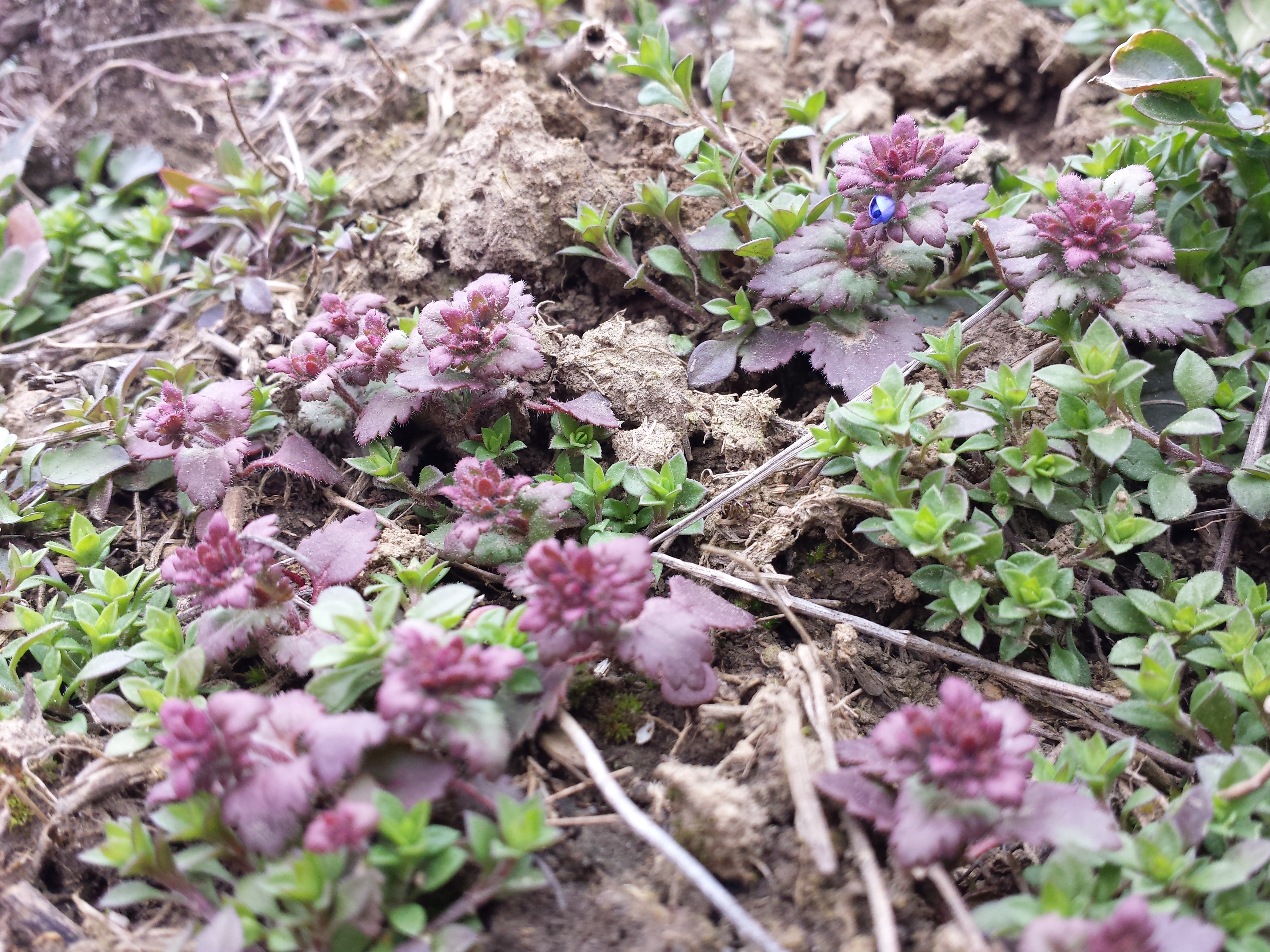 Habitus Taxonym: Veronica praecox ss Fischer et al. EfÖLS 2008 ISBN 978-3-85474-187-9 (det. M. A. Fischer) Location: near Schleinbach, district Mistelbach, Lower Austria - ca. 300 m a.s.l. Habitat: slope (loess)